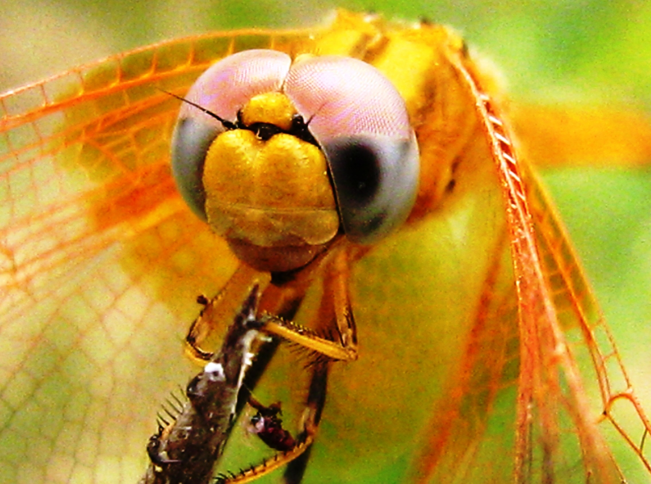 Dragonfly. Head.